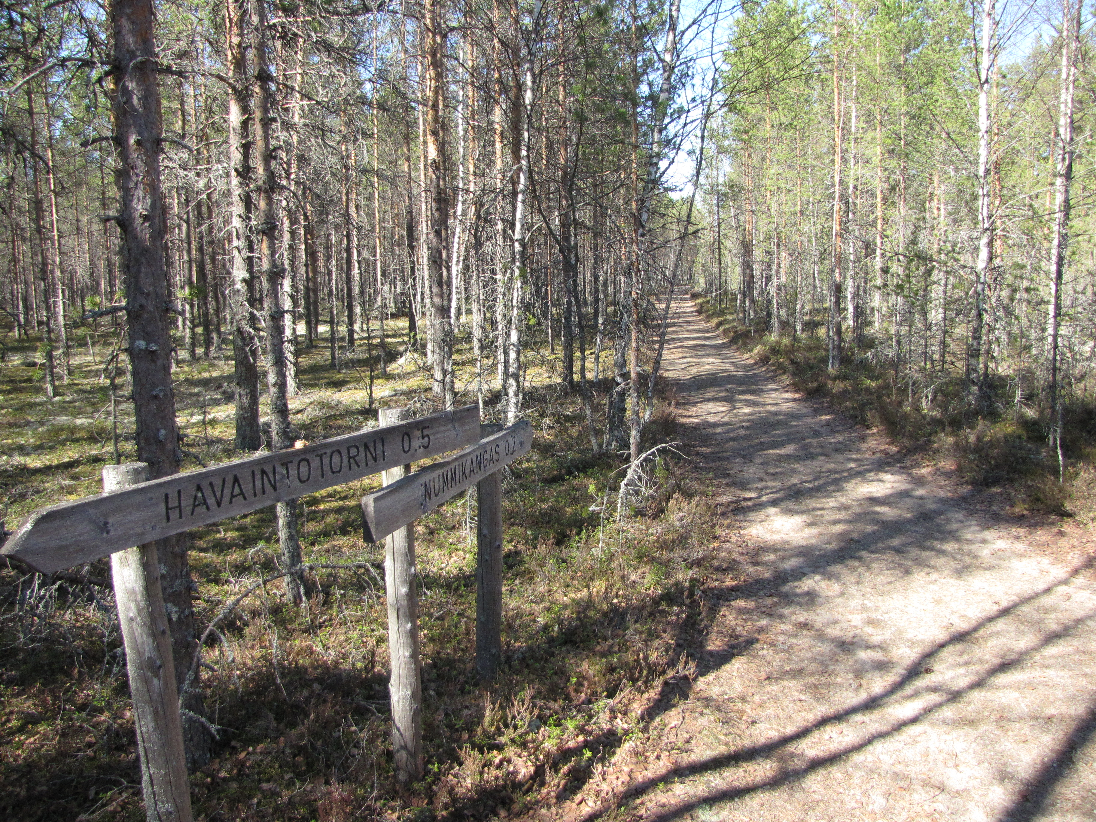 Kyrönkankaan kesätie road in the Kauhaneva–Pohjankangas National Park, Finland.